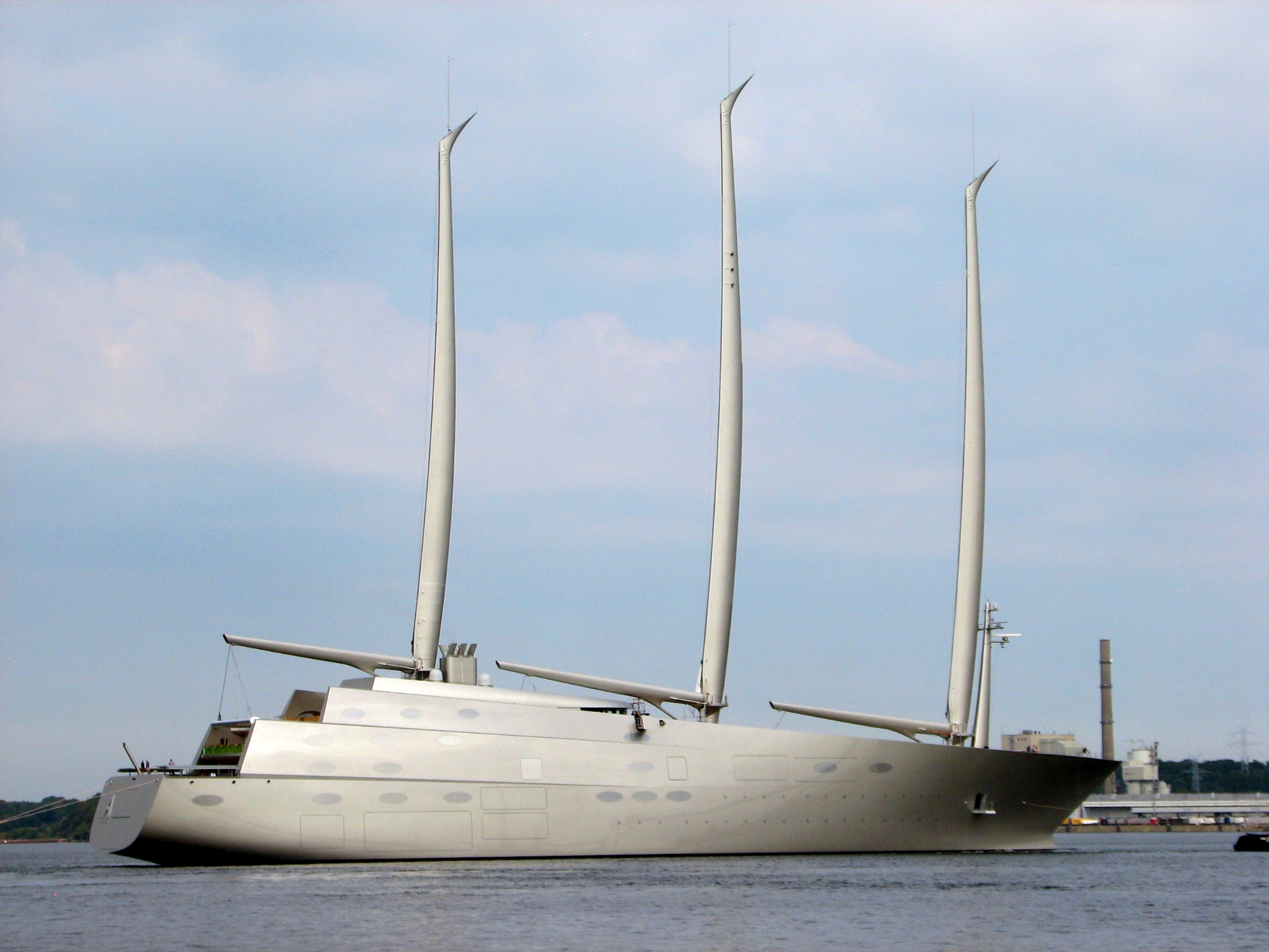 Sailing Yacht A, starboard